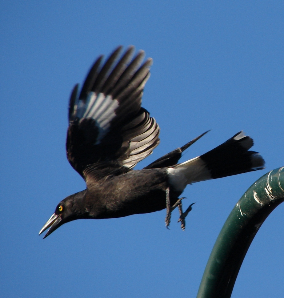 Taking off... Australian bird Pied Currawong ( Strepera graculina) of Cracticidae family, like Magpies and Butcherbirds; active predators. It looks like a crow, it is size as a crow, but it is not. Even the bird family is different. In opposite to crow it has very beautiful distinctive voice – mellow guttural wailing